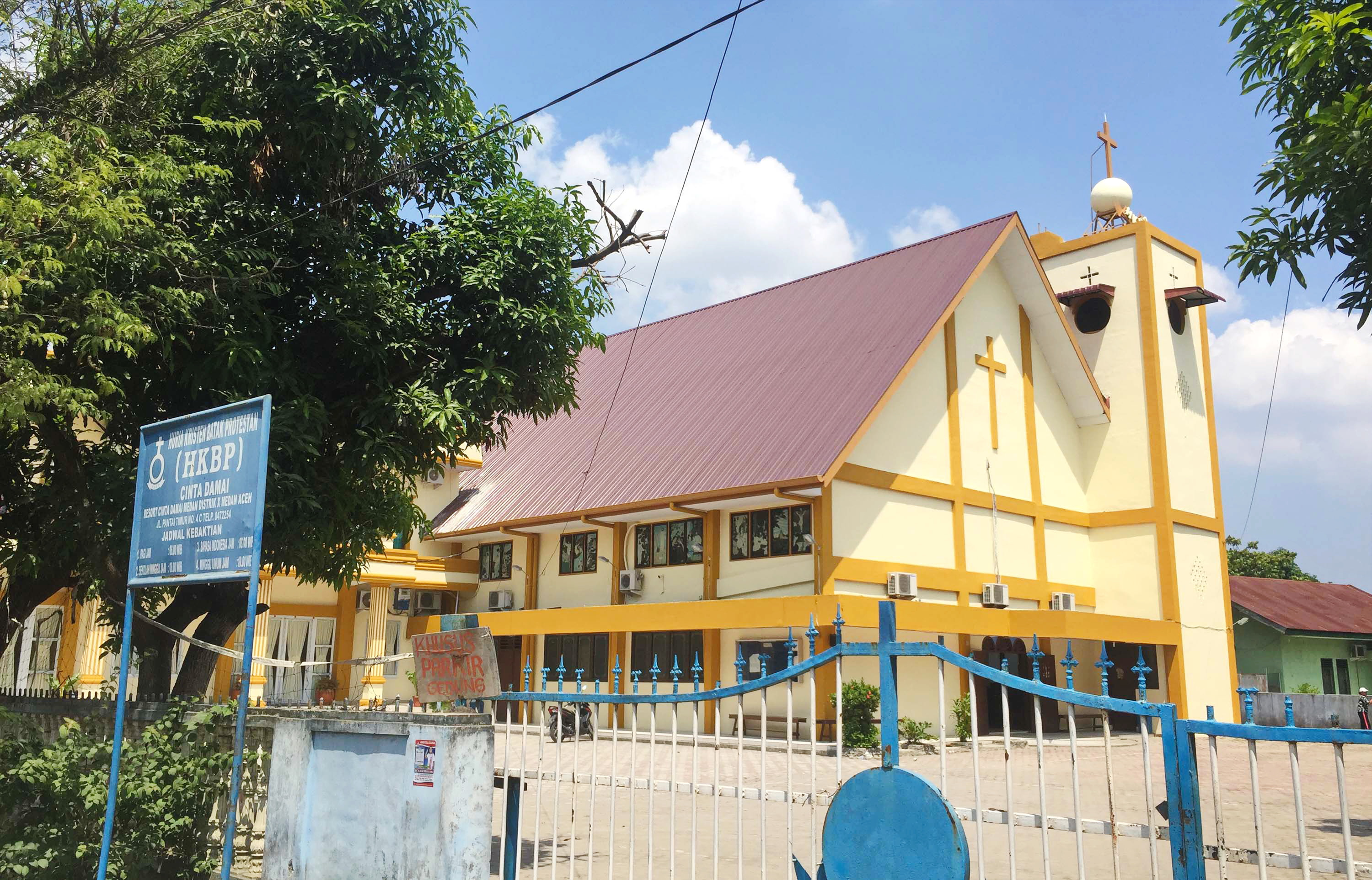 HKBP Cinta Damai, Res. Cinta Damai Church in Cinta Damai, Medan Helvetia, Medan